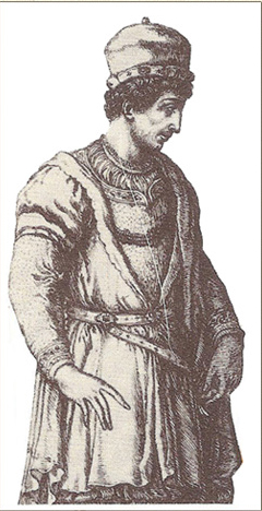 Azzo VI d'Este